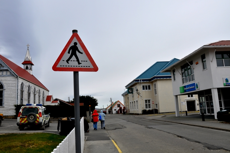 Street view from Stanley, Falkland Island